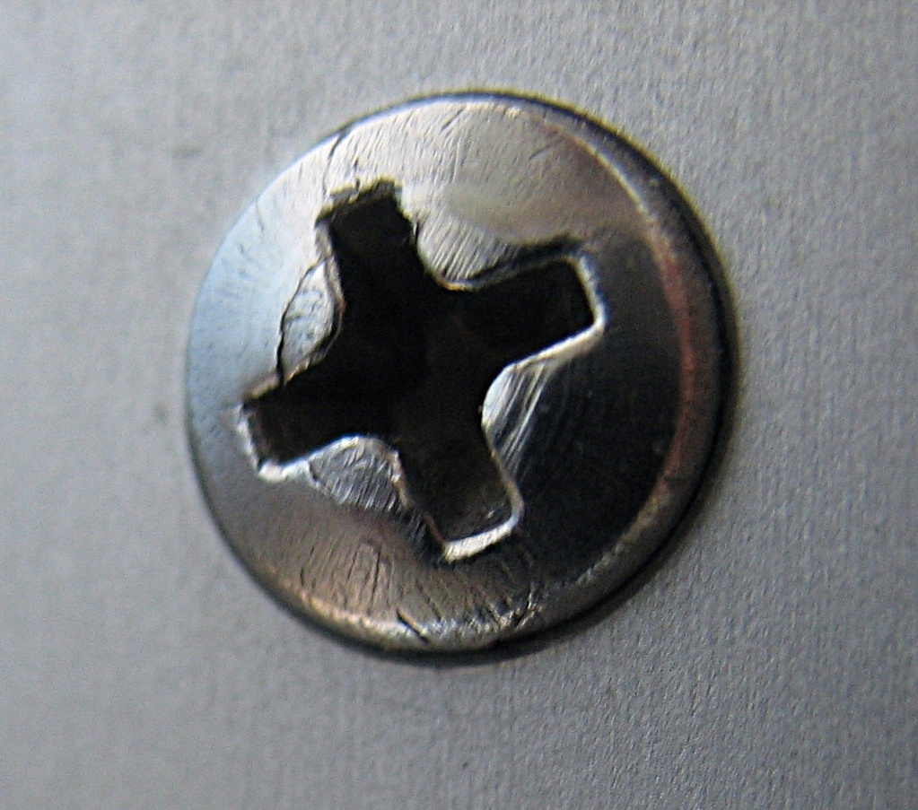 A round metal screw (cropped version)